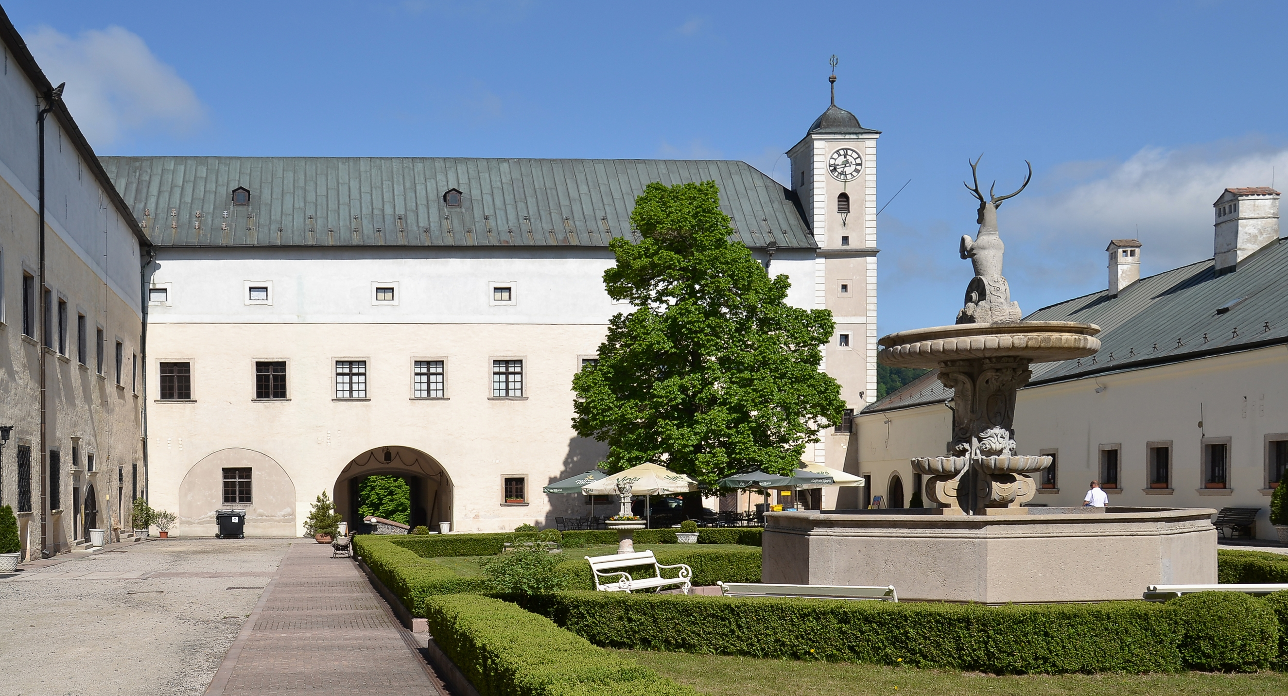 Červený Kameň (Bibersburg, Vöröskő), Slovakia - courtyard